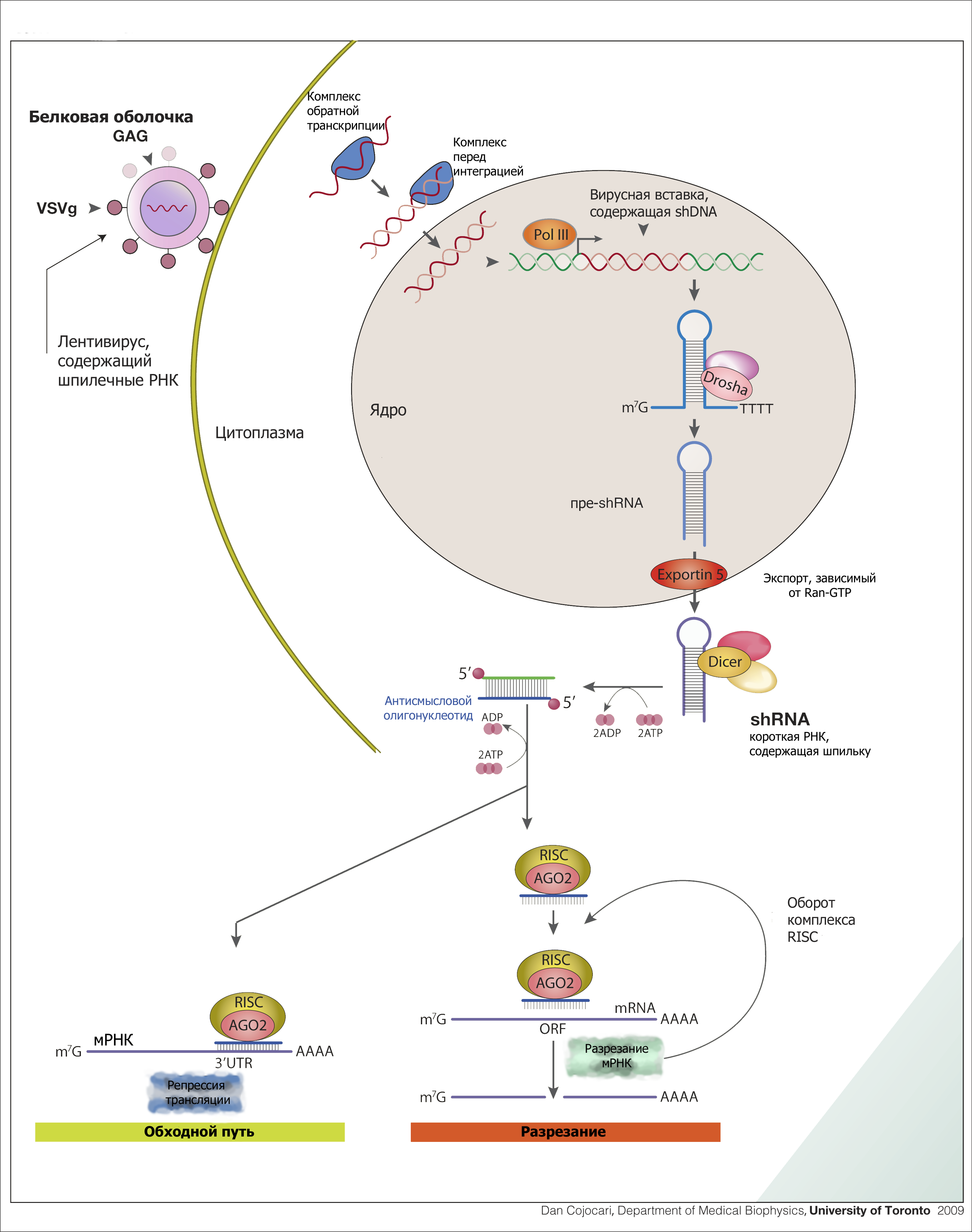 Lentiviral delivery of shRNA expression construct for stable integration and expresion of shRNA. ShRNA processing and inhibitory mechanisms.